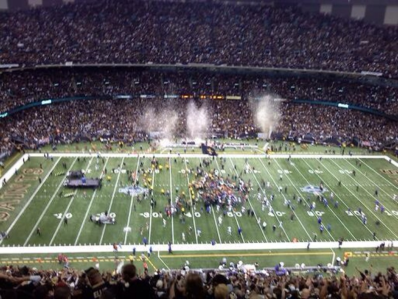 New Orleans Saints NFC Championship victory in the Superdome which will take them to the Superbowl. Right after the winning kick!